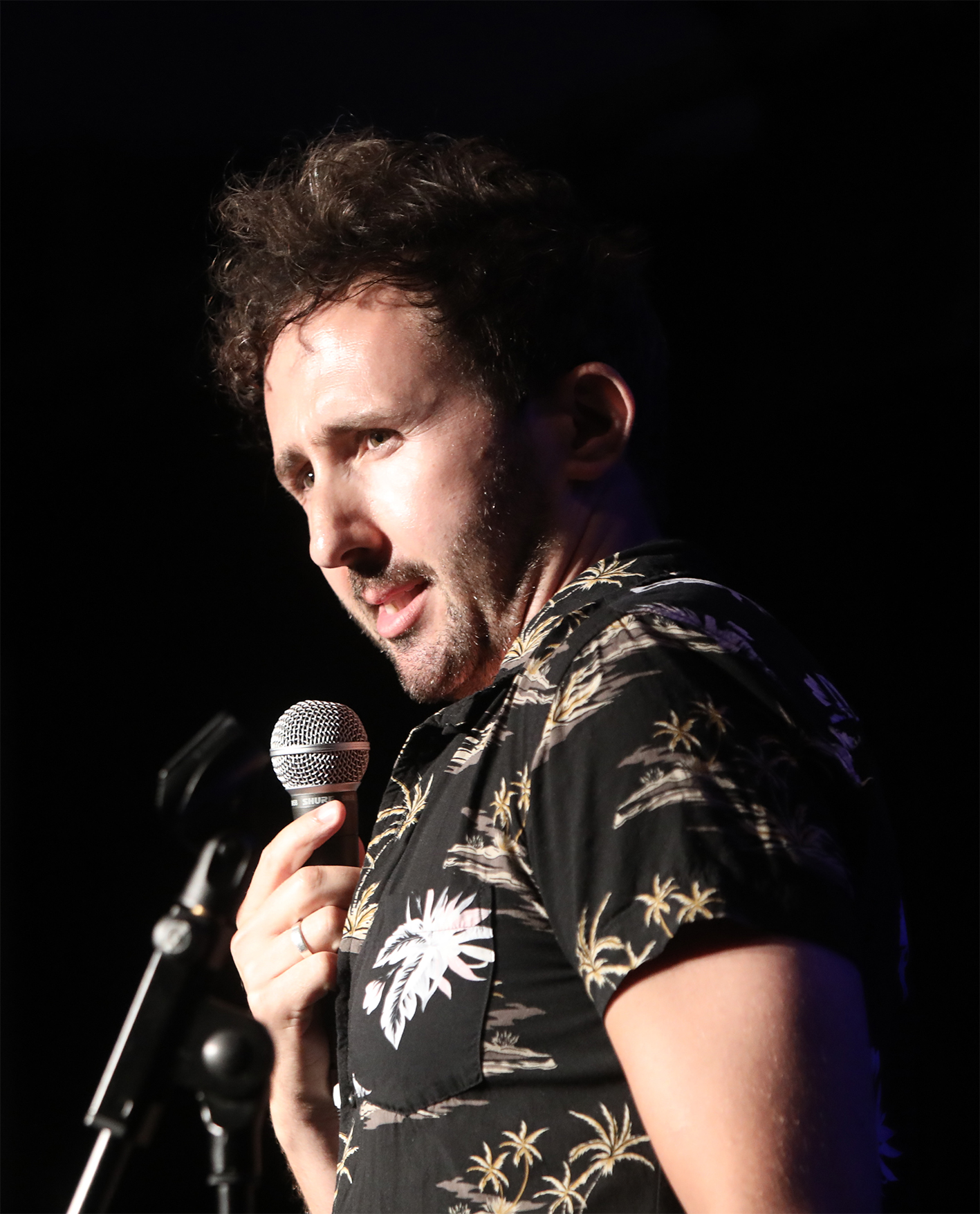 Nathan Cassidy - live at the Buxton Fringe, July 2019